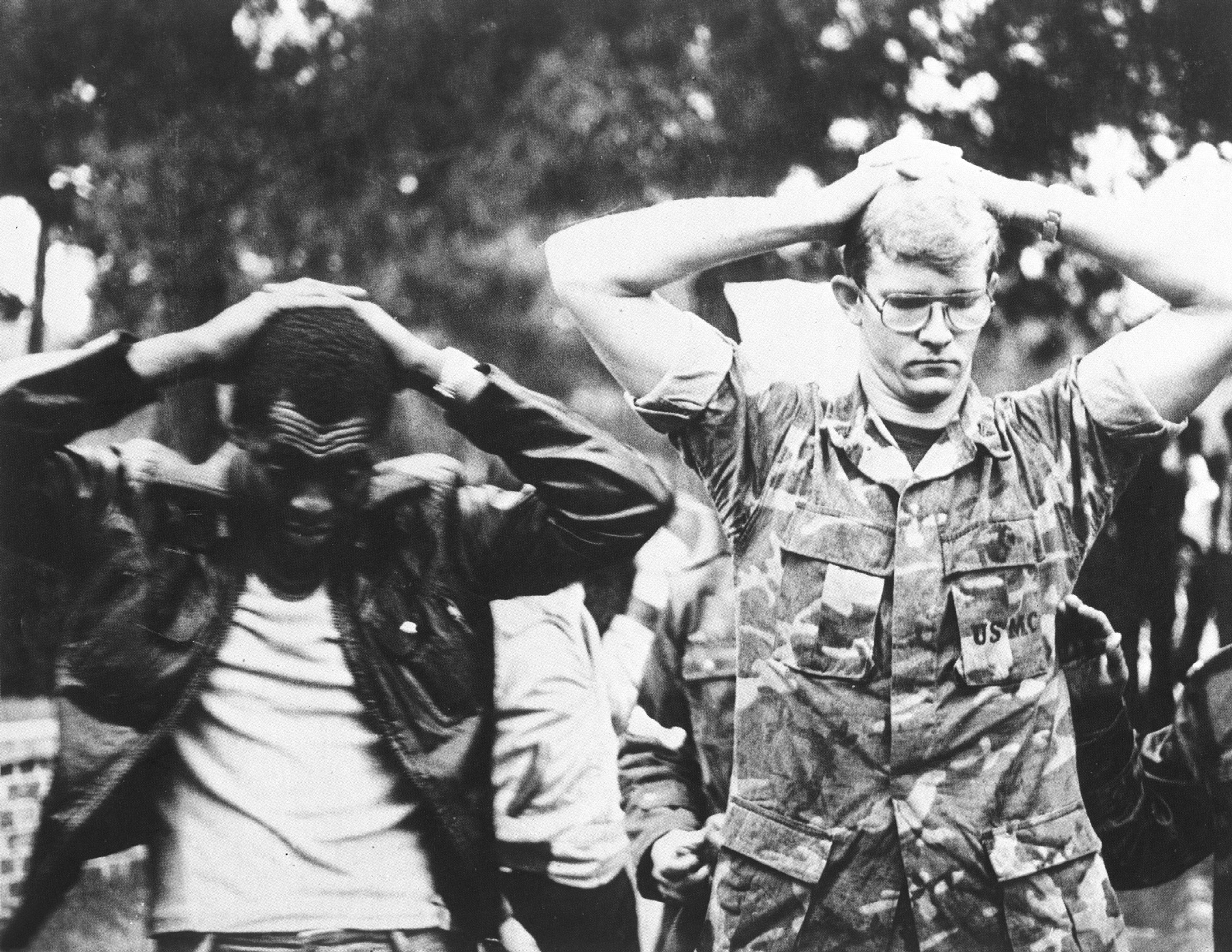 Two American hostages in Iran hostage crisis